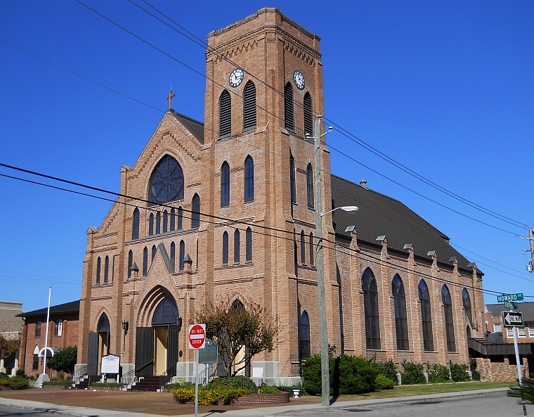 Cathedral of the Nativity of the Blessed Virgin Mary (Catholic), located at 870 West Howard Avenue, Biloxi, Mississippi, USA. Constructed in 1902, Gothic Revival Architectural Style. Listed on the National Register of Historic Places 18 May 1984.